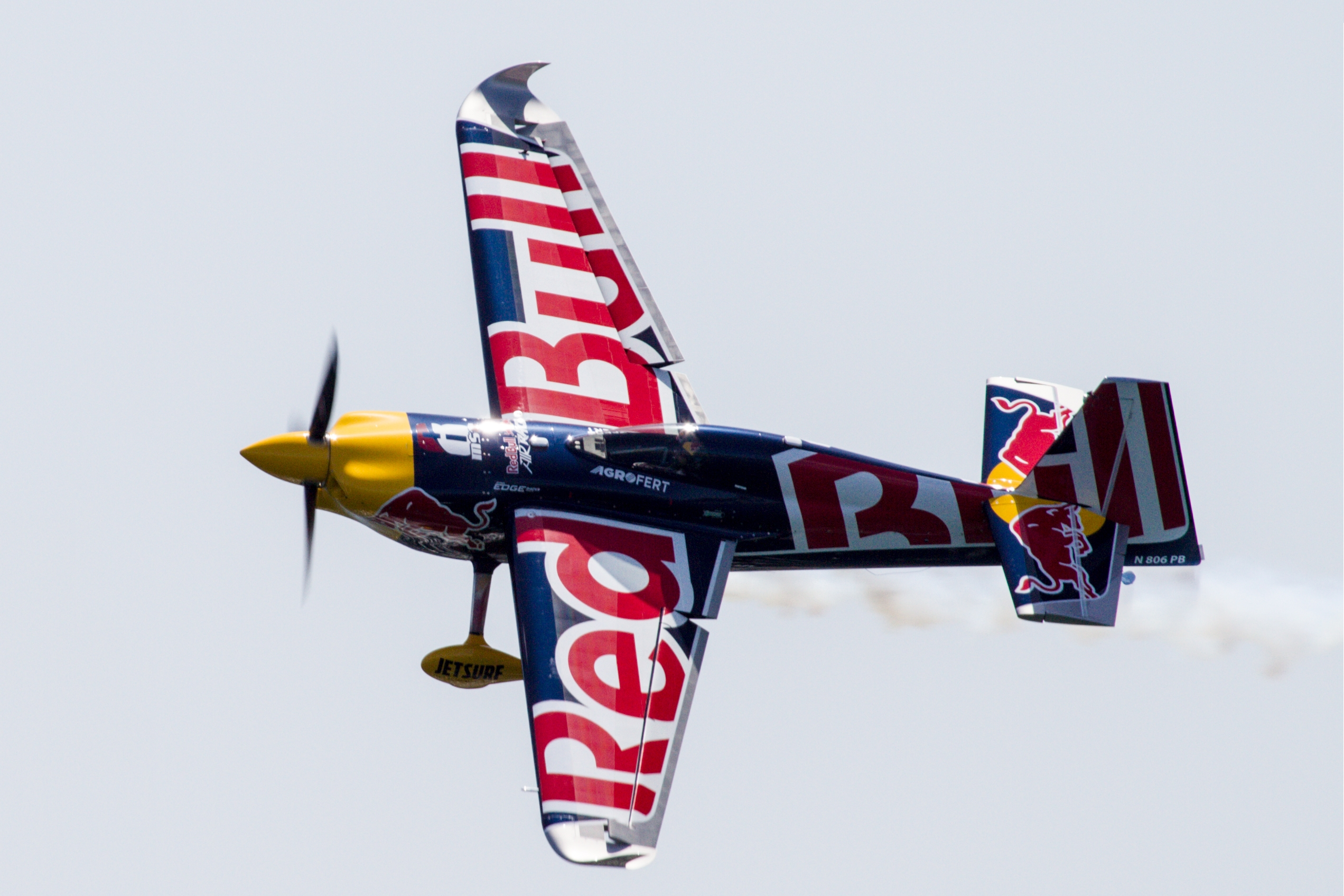 2017 Red Bull Air Race of Chiba Martin Sonka's plane